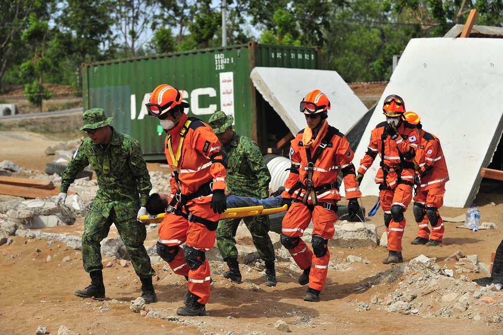 THE ASEAN REGIONAL FORUM DISASTER RELIEF EXERCISE (ARF DiREx) 2013, CHA-AM, THAILAND, 7-11 MAY 2013